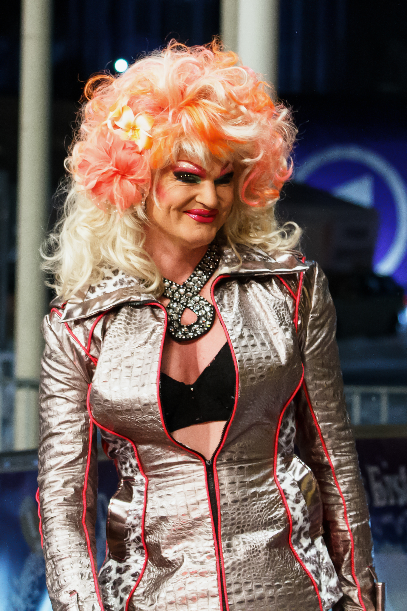 Olivia Jones at the Echo music award 2013